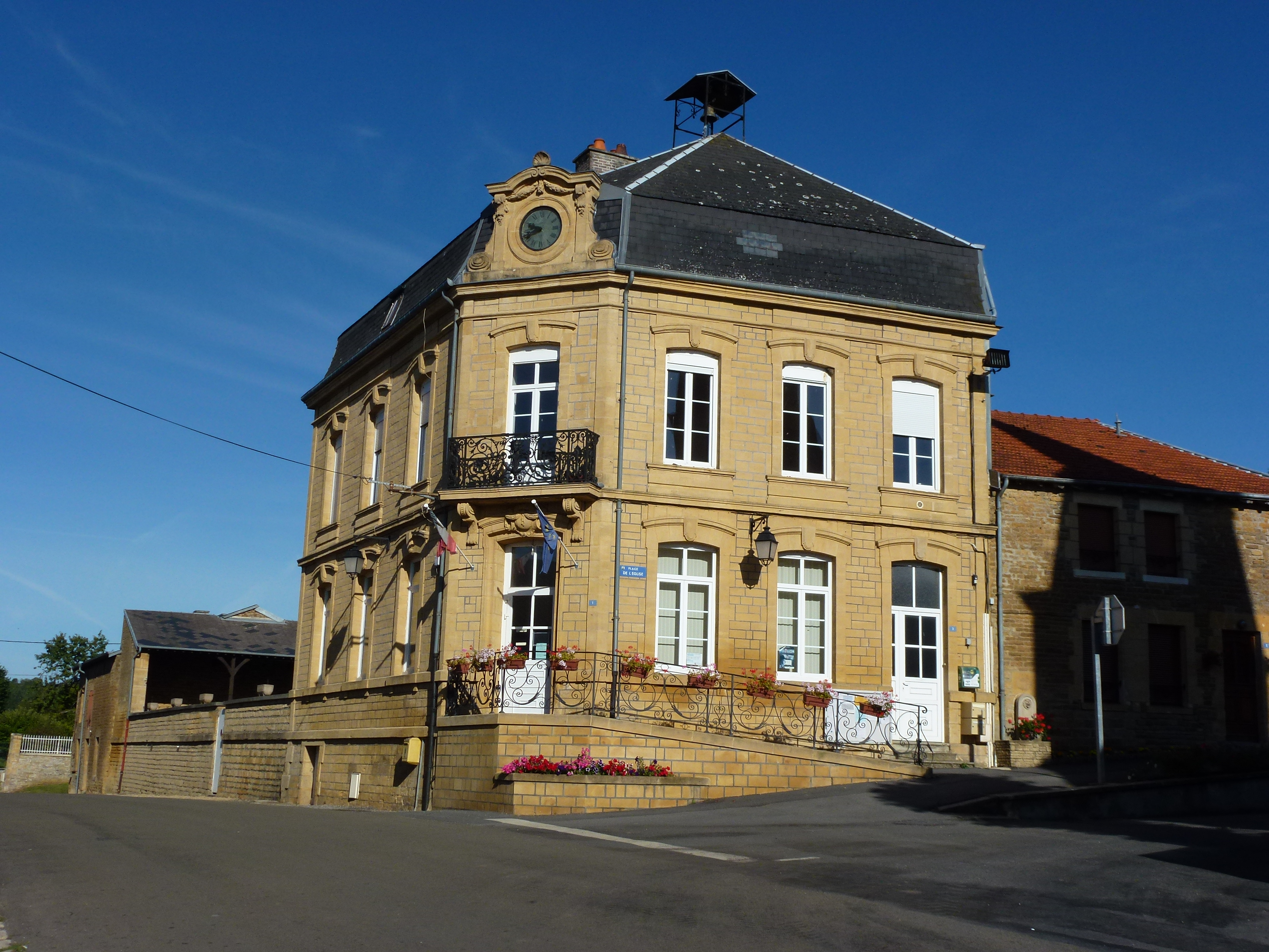 Sormonne (Ardennes) mairie